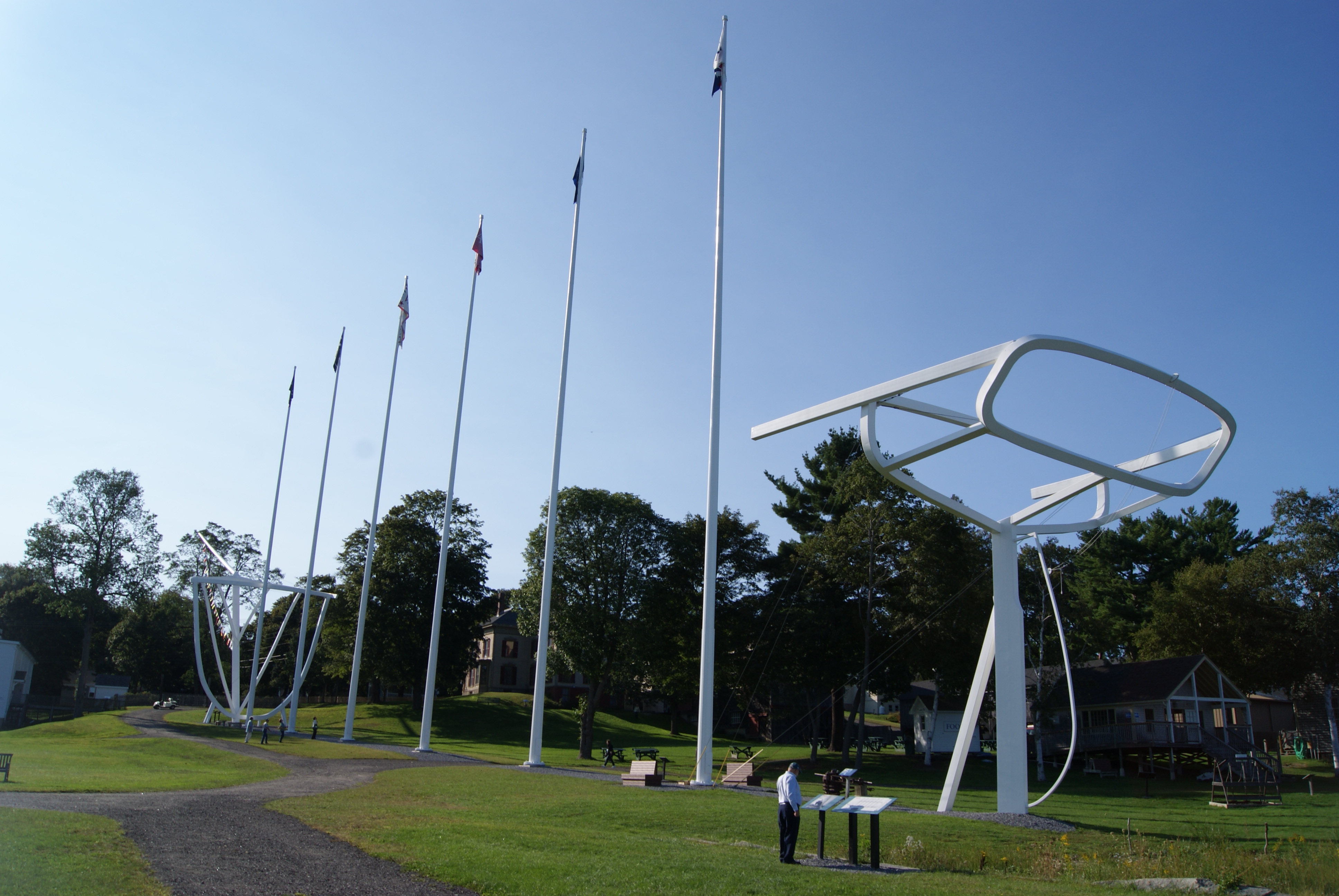 A sculpture depicting the Wyoming at the Maine Maritime Museum in Bath, Maine, USA.